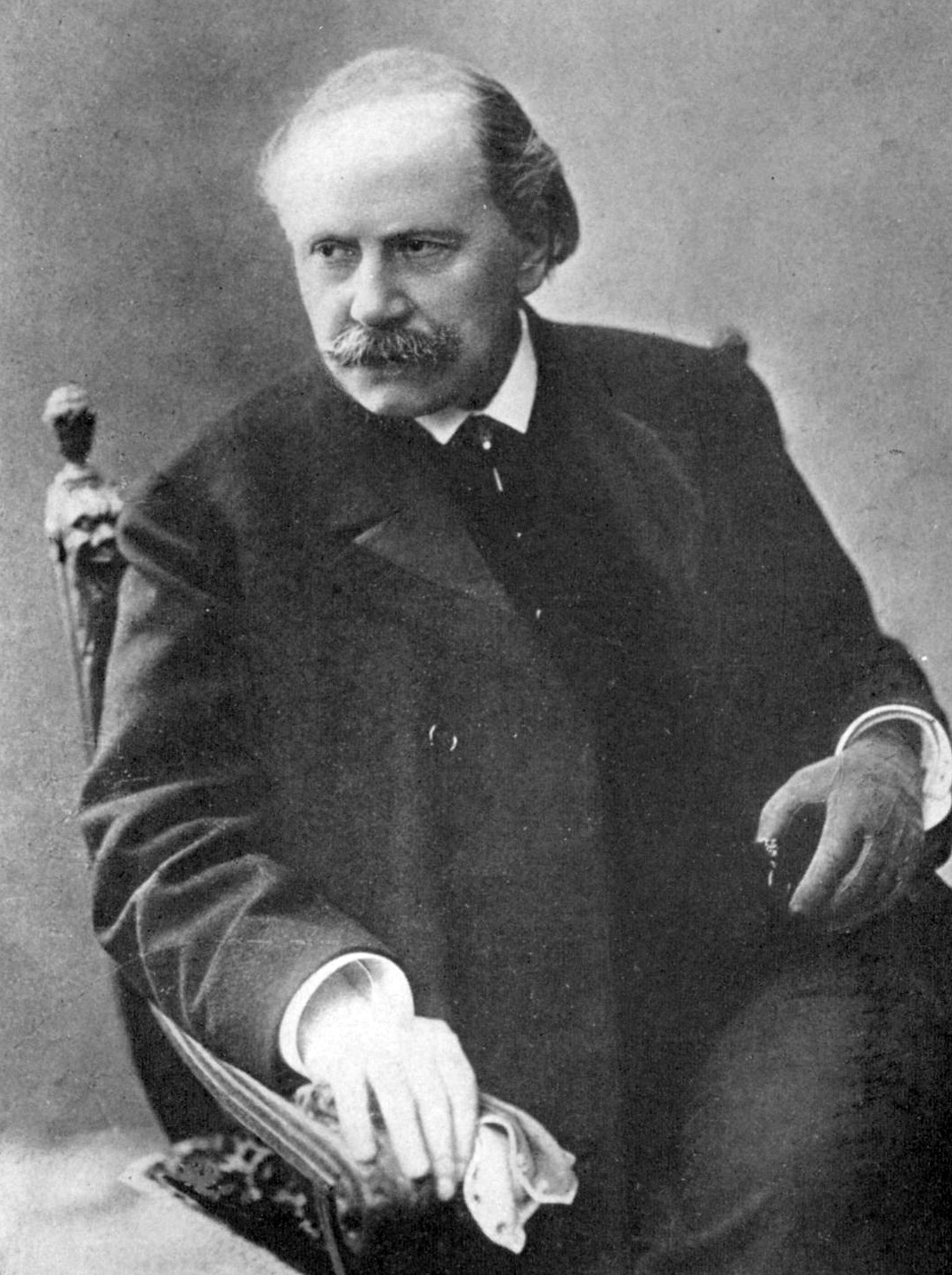 Depicted person: Jules Massenet – French composer (1842-1912)